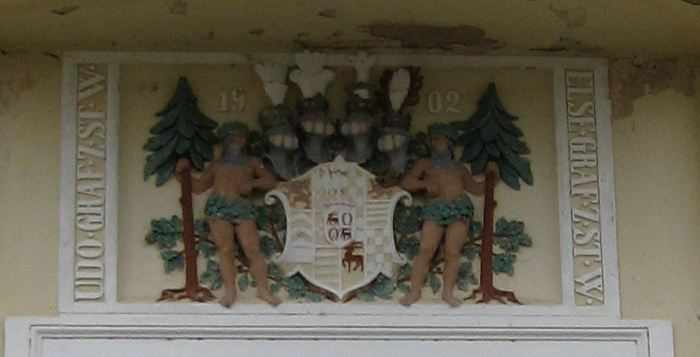 Palace w Drogosze (Groß Wolfsdorf) in Poland.